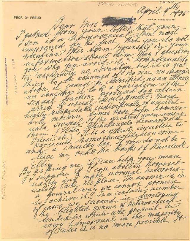 A Letter from Sigmund Freud to a Mother Concerning her Son's Homosexuality. The Letter was later send anonymusioly "From a grateful mother" to Alfred Charles Kinsey. Page 1